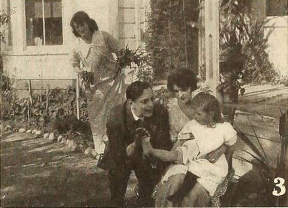 Still from the American film In the Sunlight (1915) with (from right) an unnamed actress in the background, David Lythgoe, Vivian Rich, and an unnamed child, on page 7 of the March 20, 1915 Reel Life magazine. The magazine on this page had numbered stills from several films.